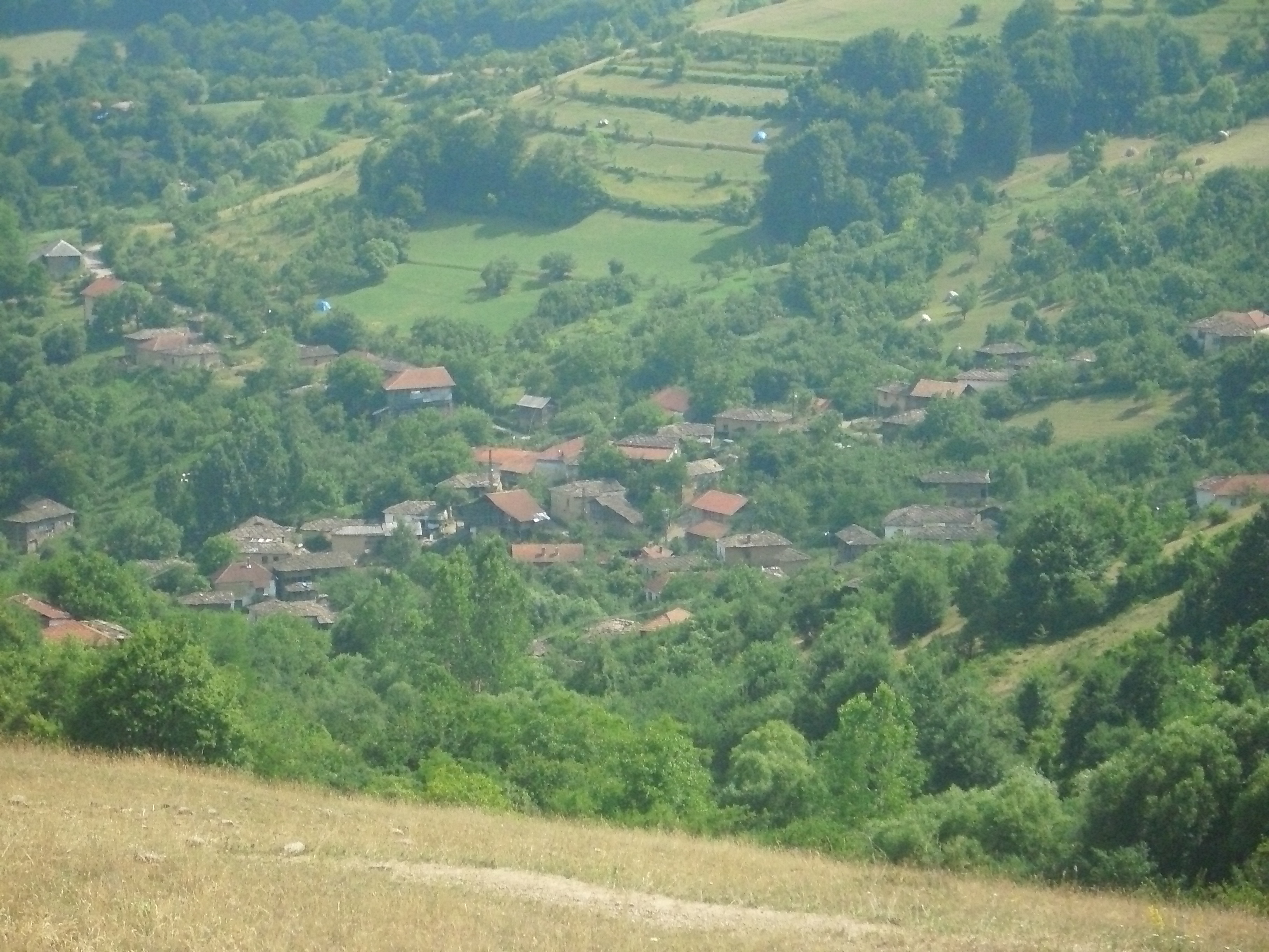 Vilage Pokrevenik on Old mountain